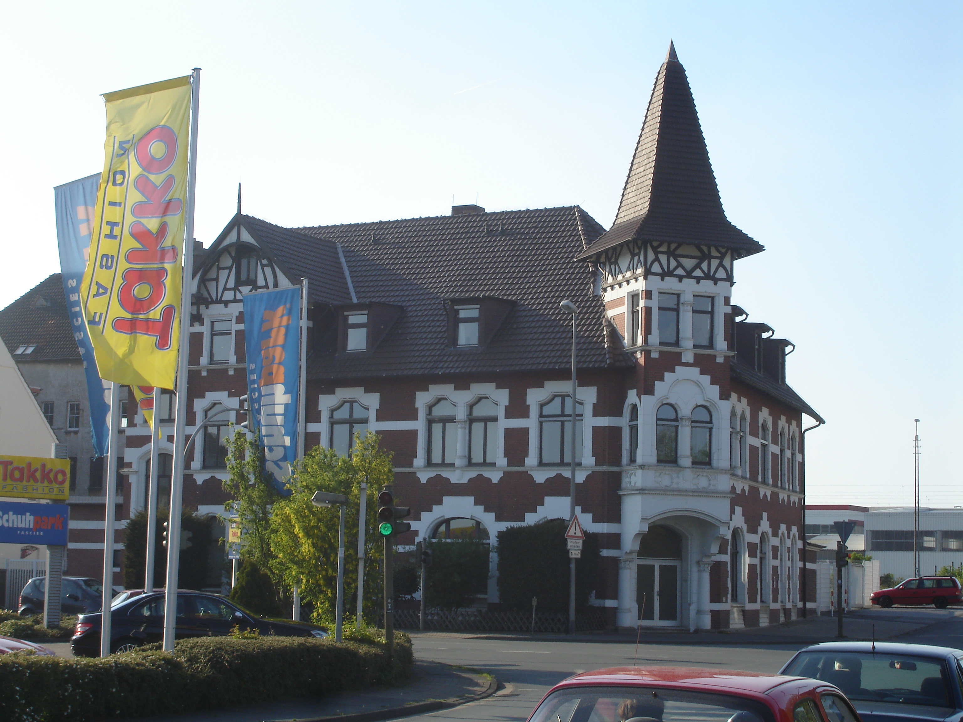 Town of Bünde, District of Herford, North Rhine-Westphalia, Germany. The custom office.